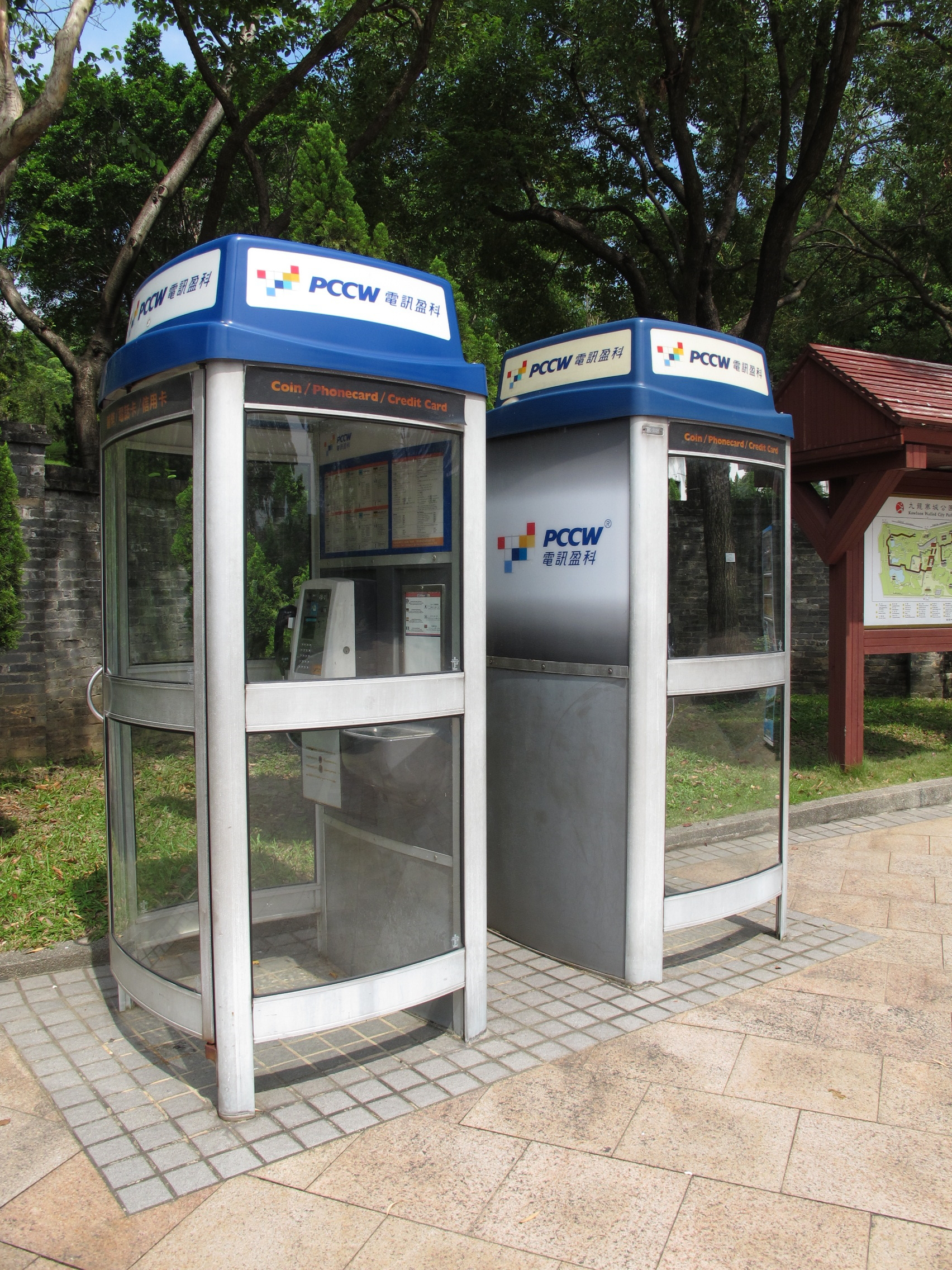 PCCW Telephone Booth